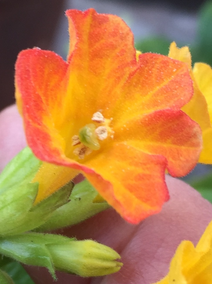 Streptosolen jamesonii single flower in extreme close-up so as to show the stigma, and the four stamens - two short and two long.